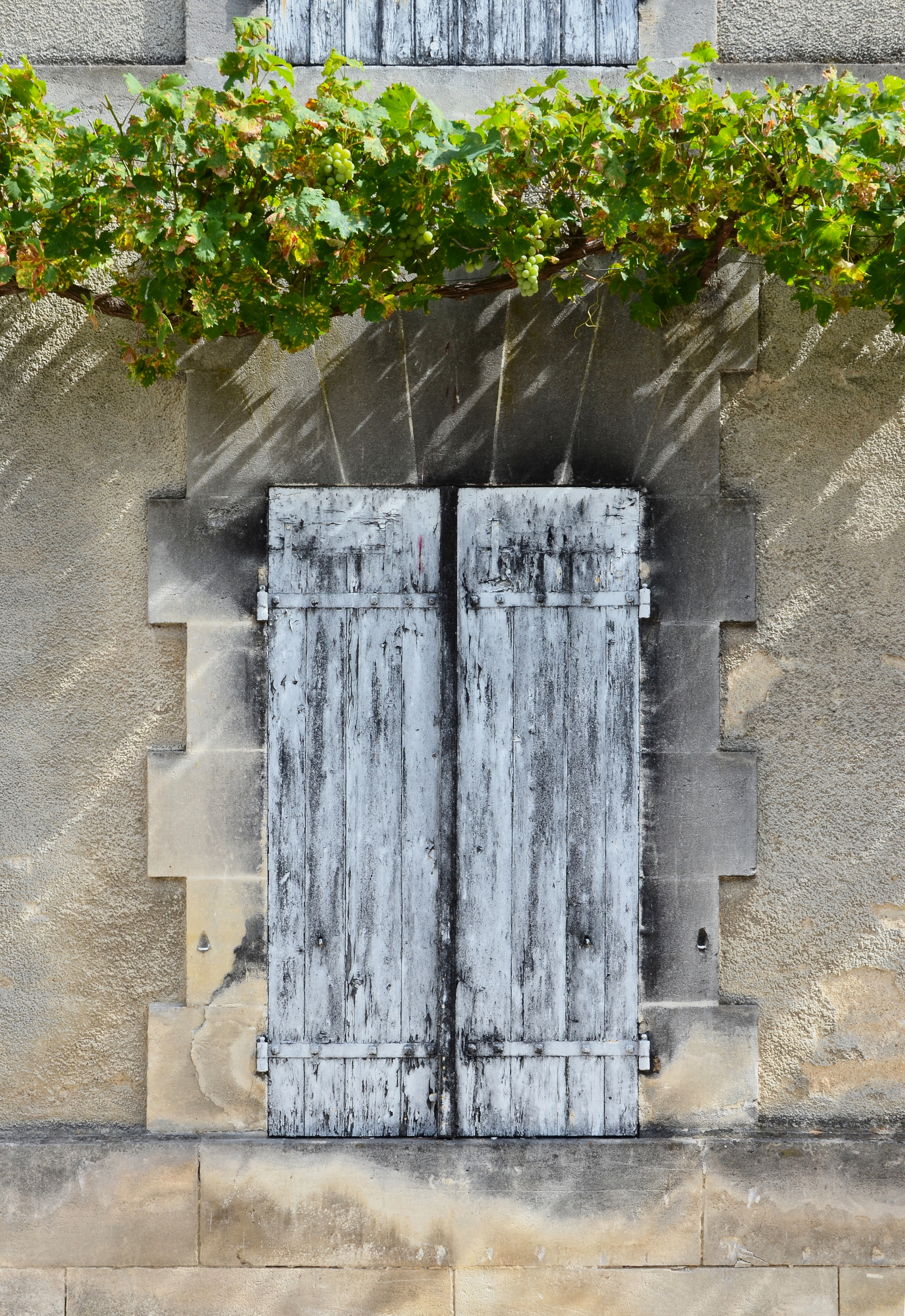 Shutters and wall blackened by 'the angel's share' (Baudoinia compniacensis), i. e. cognac alcohol vapors, Jarnac, Charente, France.